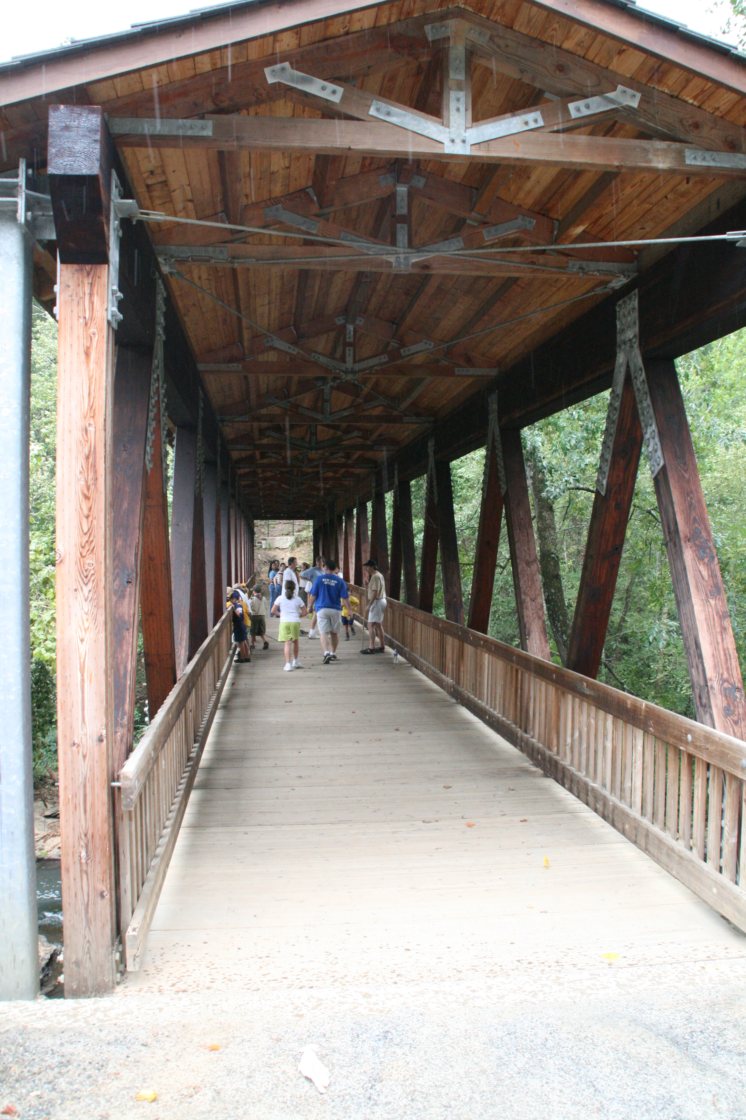 The covered bridge at the Roswell Mill Ruins connecting to the Vickery Creek unit of the Chattahoochee River National Recreation Area